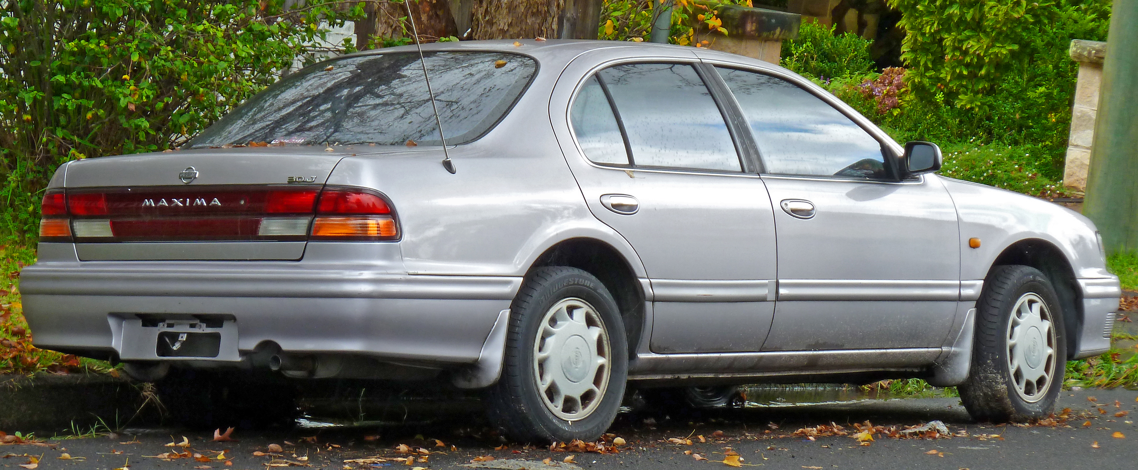 1995–1996 Nissan Maxima (A32) 30J sedan. Photographed in Roseville, New South Wales, Australia.